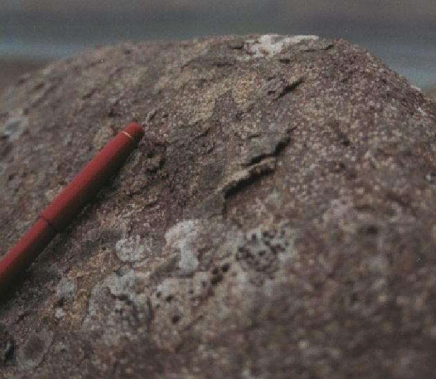 rock exfoliation on basalt, Slaettaratindur, Faeroes Islands